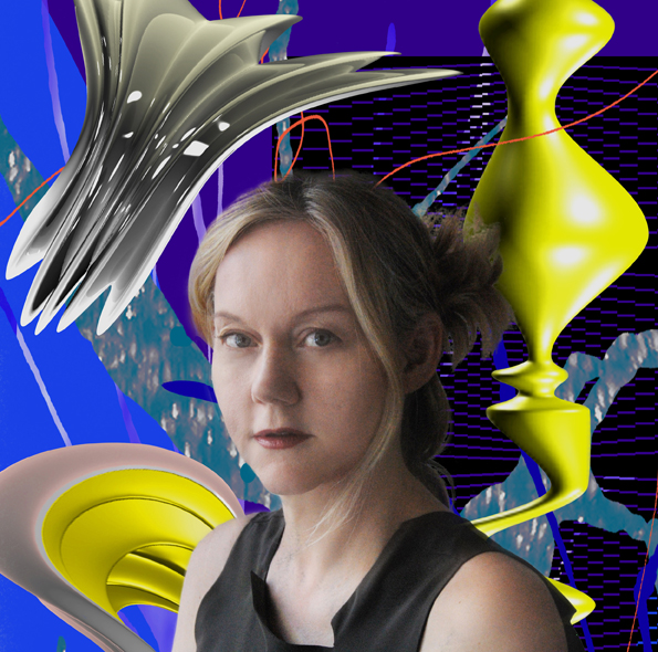 Pia MYrvoLD